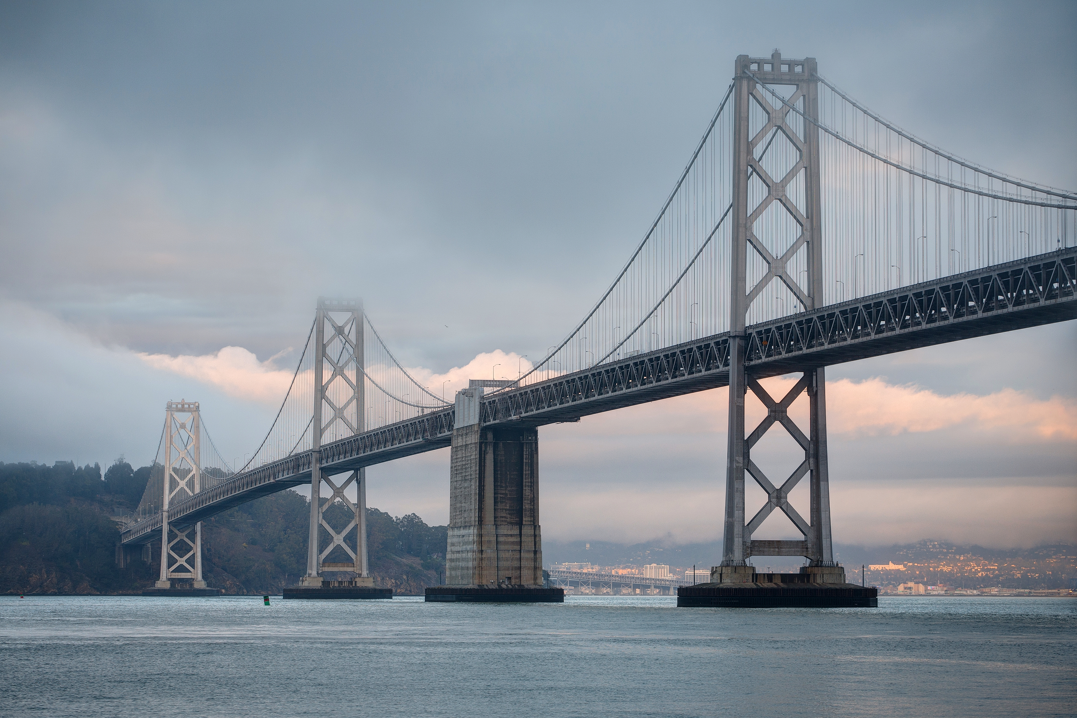 San Francisco-Oakland Bay Bridge, western part, view east from The Embarcadero.